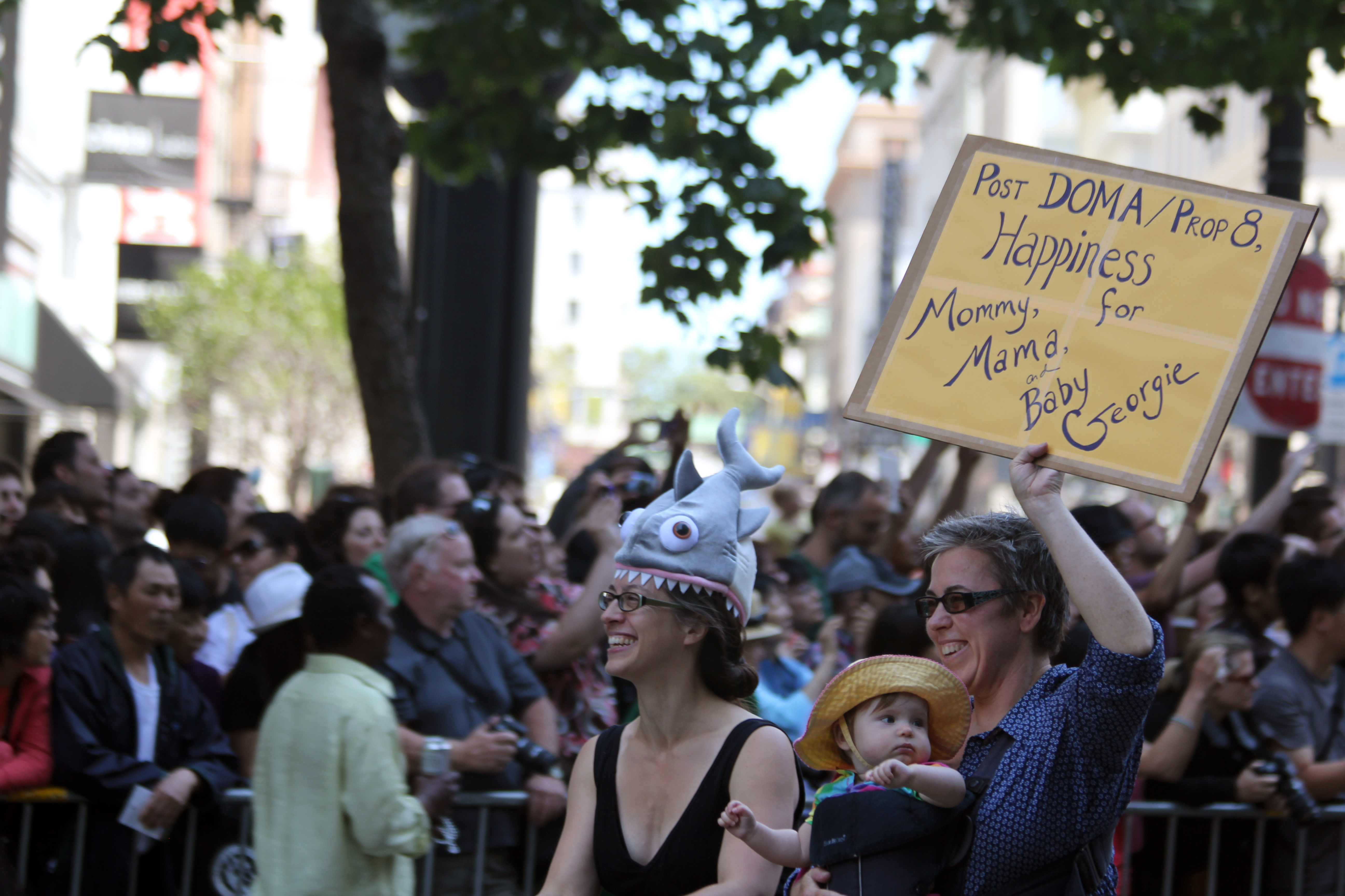 Mommy, Mama and Baby Georgie